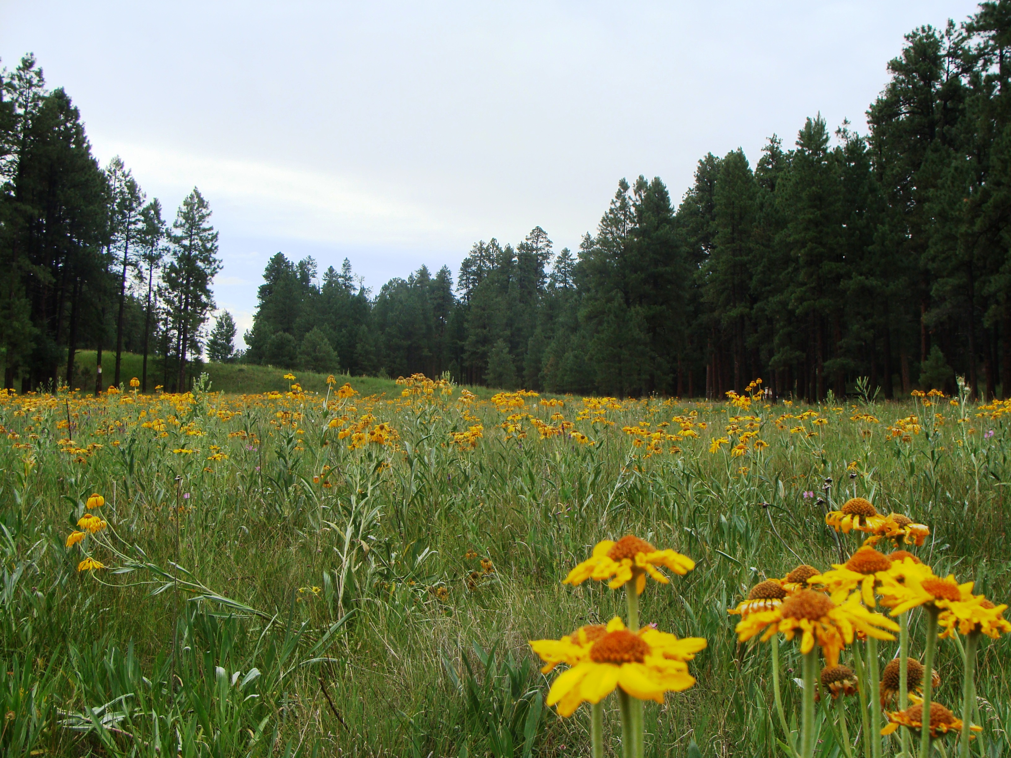 Apache Sitgreaves National Forest. Near the AZ-NM border on route 180 around Alpine, Arizona.